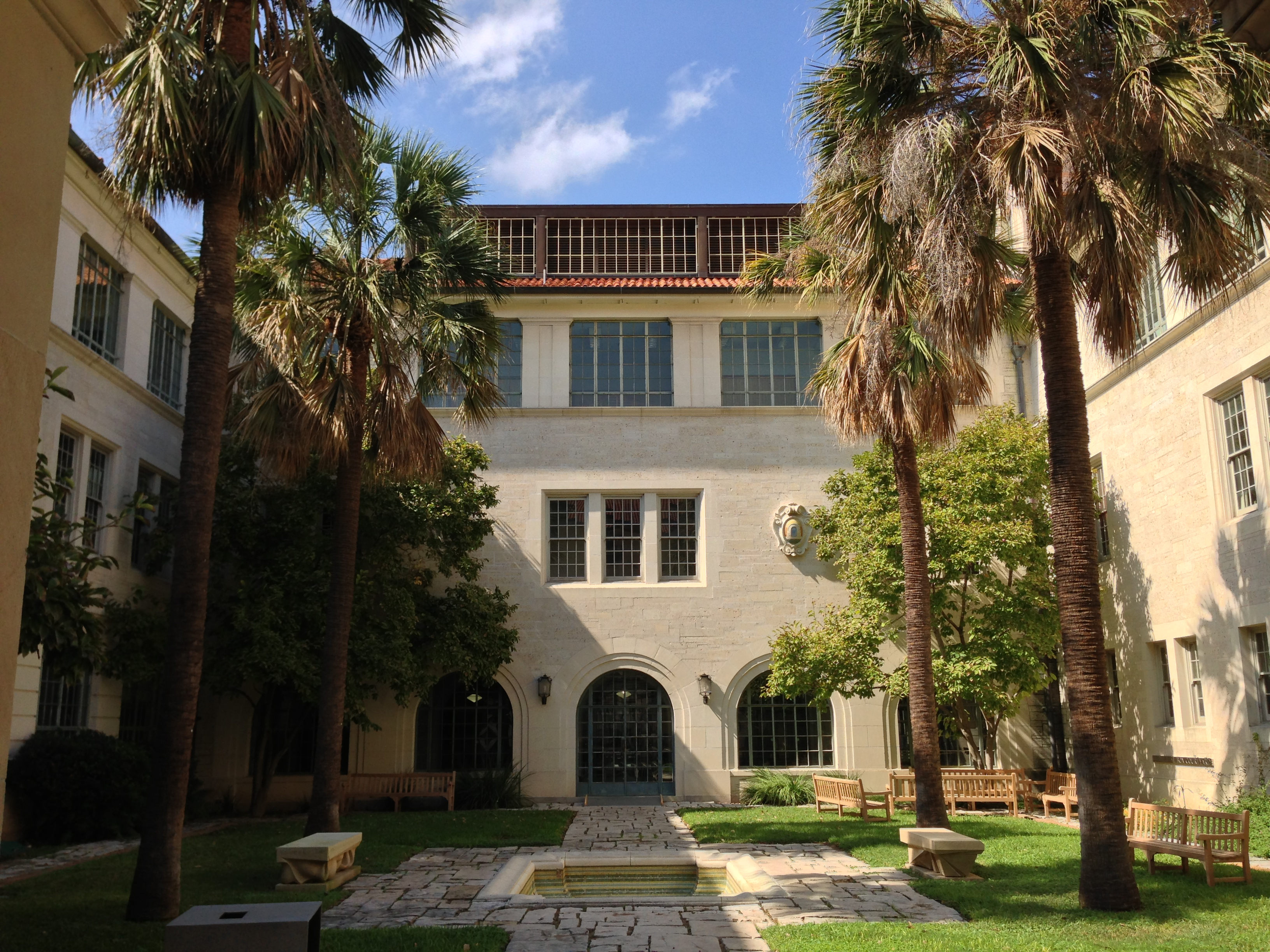 Photo taken from Portico